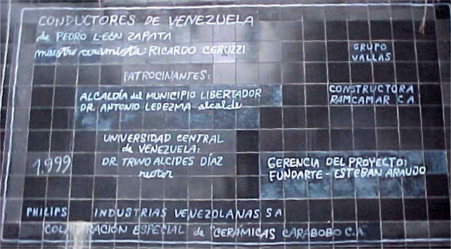 UCV-Mural Los constructores de Venezuela en el municipio Libertador, Distrito Capital - Venezuela (2000)